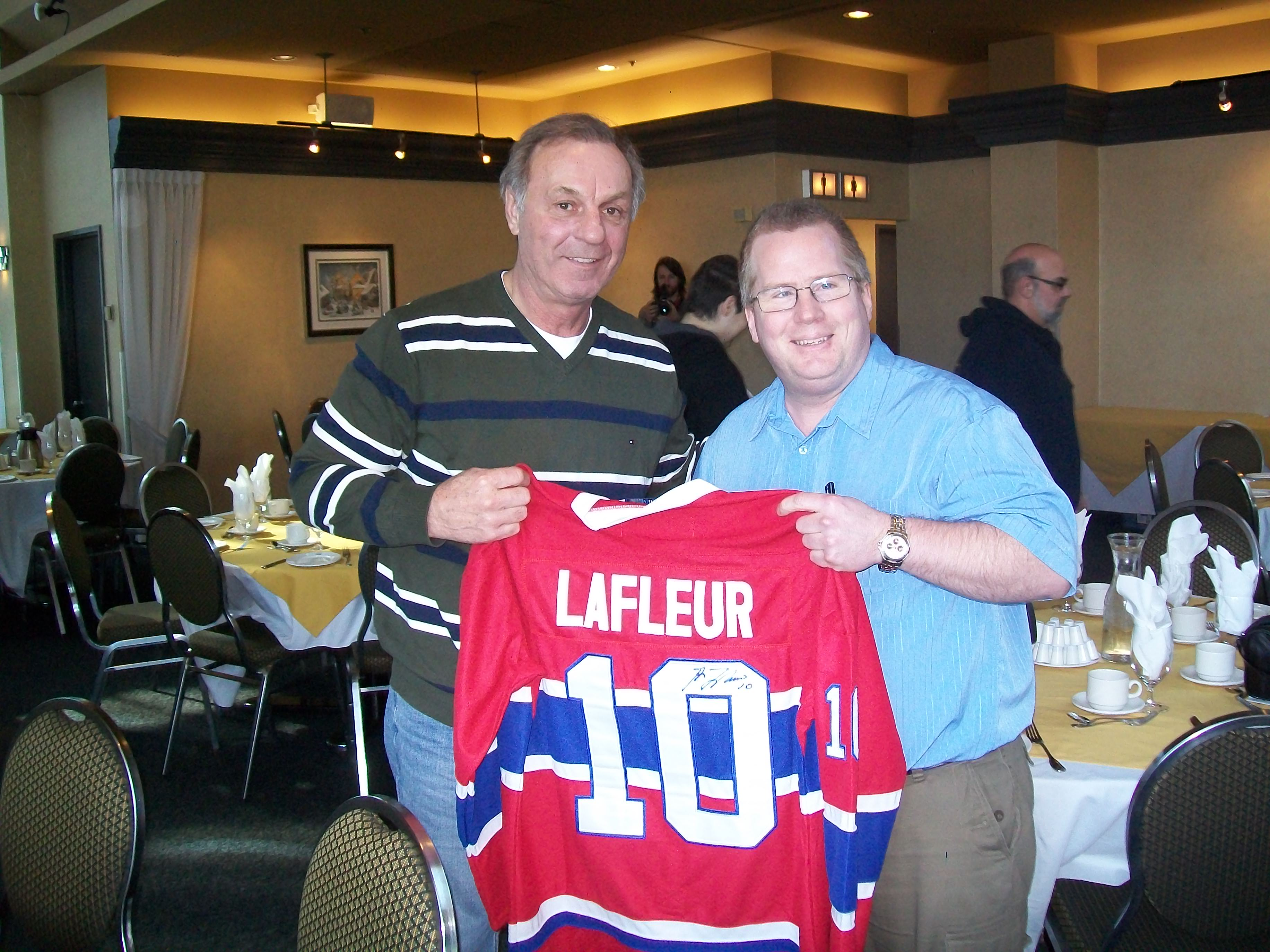 Picture taken March 17th, in Longueuil, Quebec, Canada.